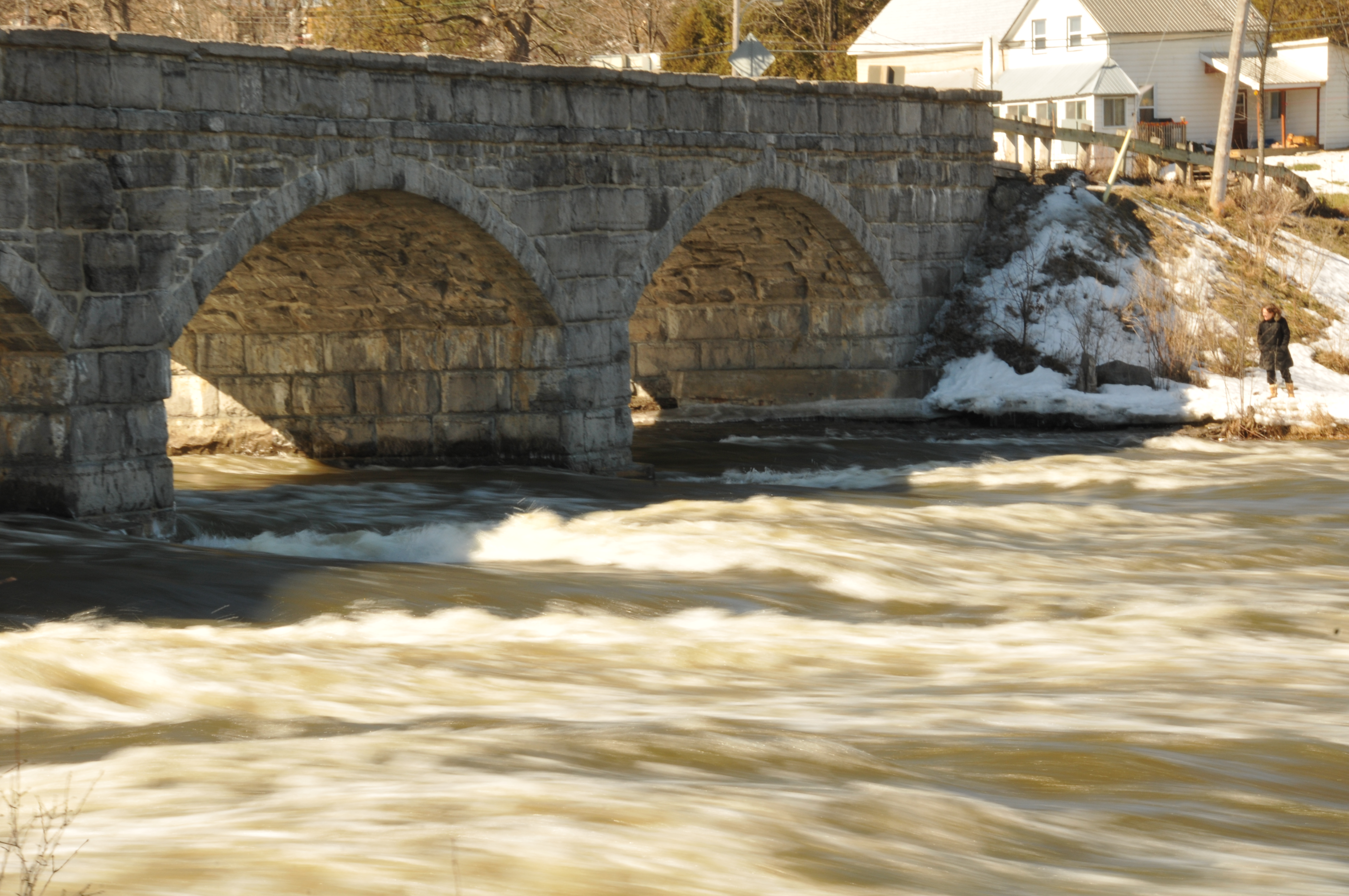 An old (1901) stone bridge over the Mississippi River, Ontario in Mississippi Mills near Pakenham at spring runoff.